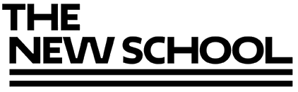 Logo of The New School, a university in New York City.